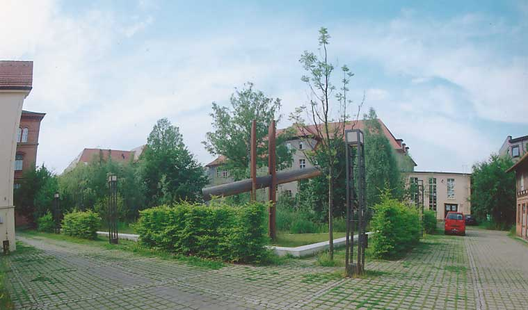 The polytechnic highschool of Eberswalde, Germany